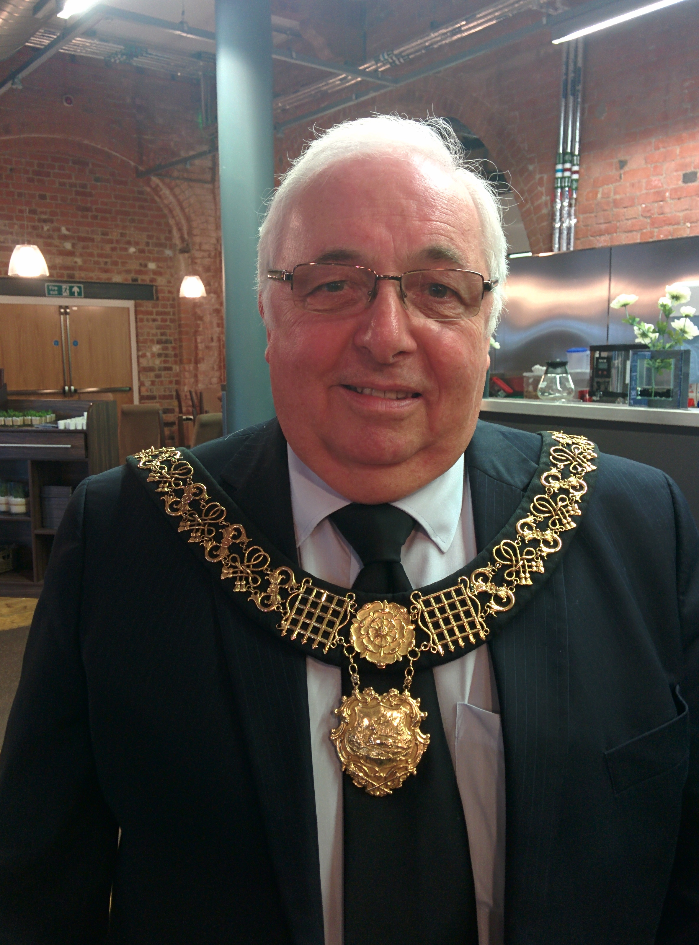 Derby Book Festival opening ceremony 1 June 2015 held near the Roundhouse in Derby